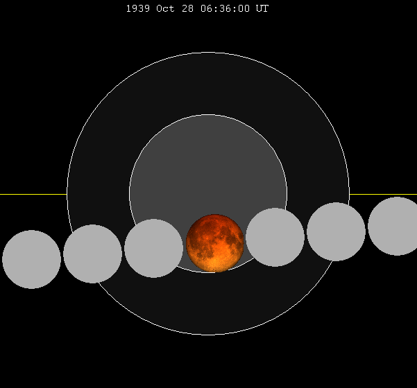 Lunar eclipse chart